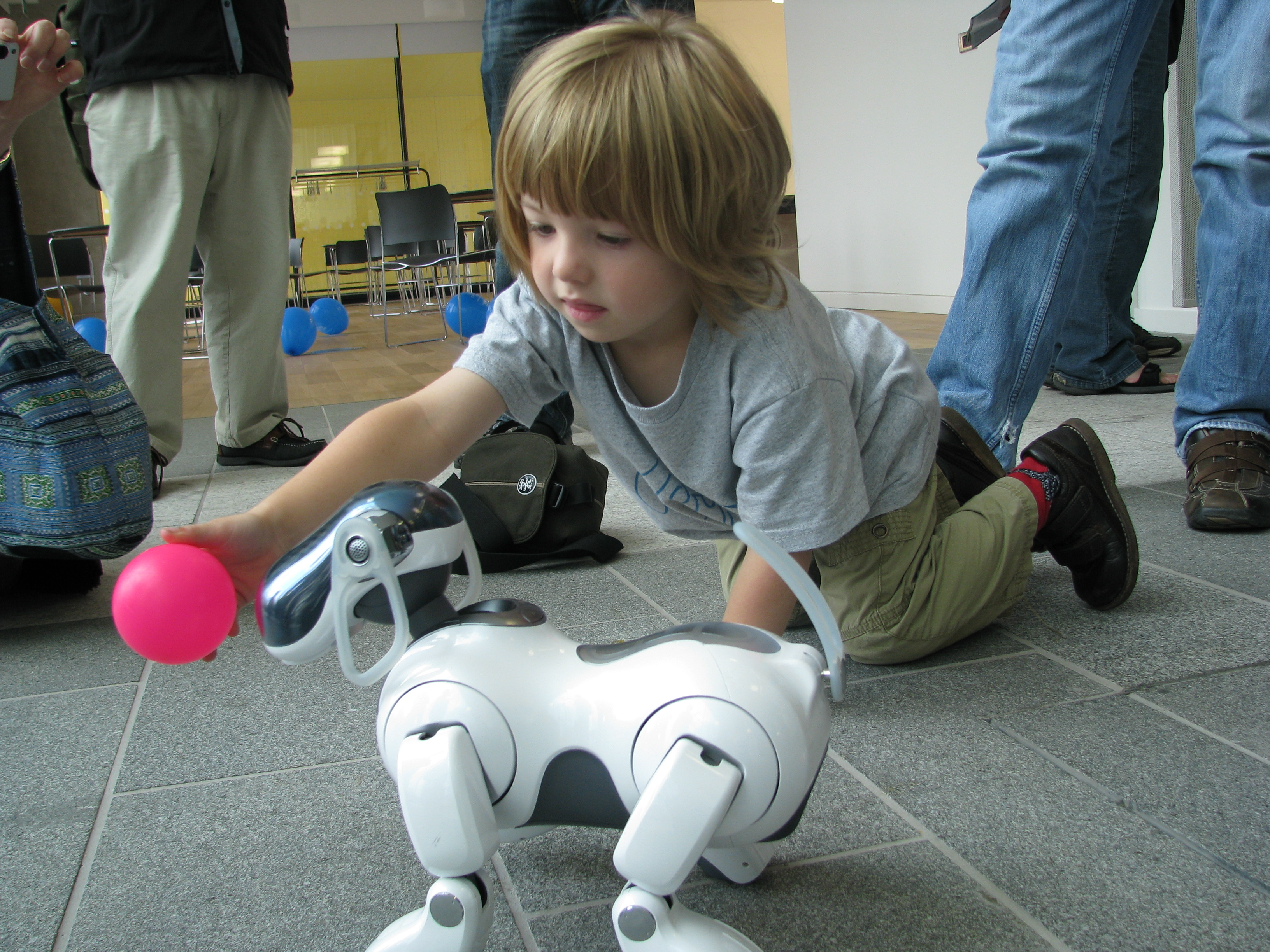 AIBO ERS-7 following pink ball held by child